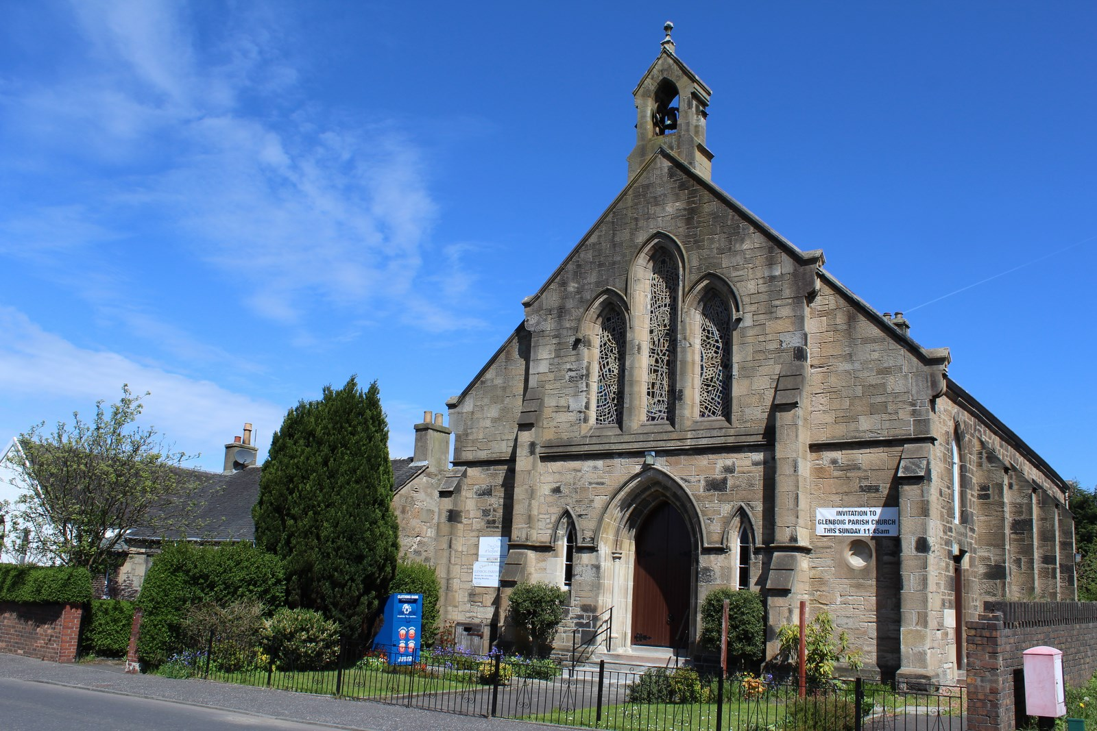 Glenboig Parish Church